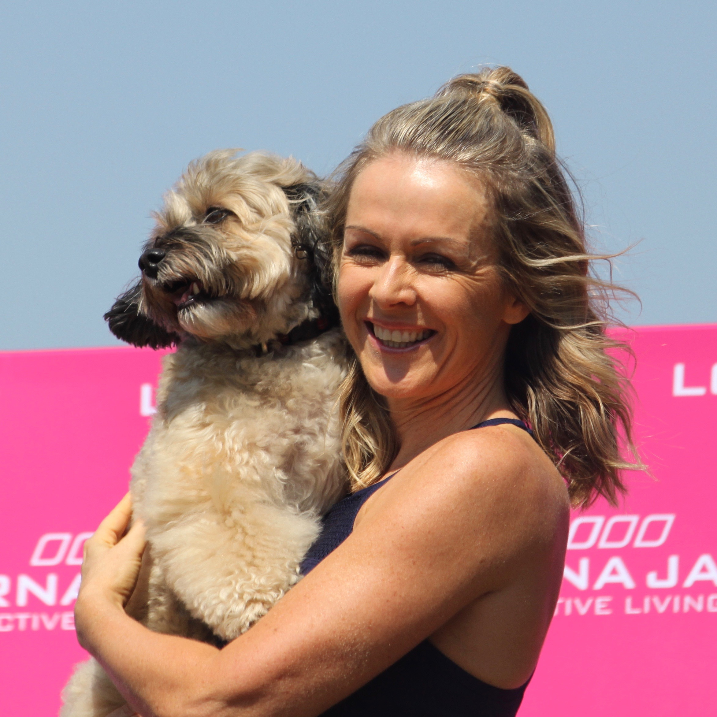 Lorna Jane Clarkson with her pet dog Roger at the Lorna Jane Active Nation Day in Brisbane on 24 September 2017